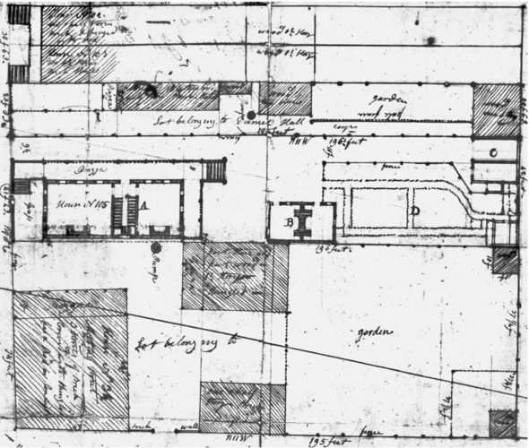 This plat was created in 1789 and shows the interior plan for 70 Tradd Street, Charleston, South Carolina.